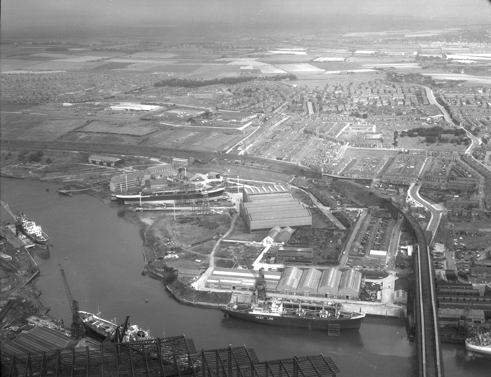 Aerial view of the Southwick shipyard of Austin & Pickersgill, Sunderland, September 1961 (TWAM ref. DT.TUR/2/27304A). The cargo ship 'Torr Head' can be seen in the foreground at the firm's fitting out quay. In the background the ore carrier 'Finnamore Meadow' is nearly ready for launch from the shipyard. This set of aerial images is intended as a short historical tour of the River Wear from the Piers to Pallion. It gives us an impression of what the River looked like during the middle years of the Twentieth Century, when it was a hive of industrial activity. Sunderland had an international reputation for shipbuilding and this is well represented in this set with images of its famous shipyards such as Austin & Pickersgill, J.L. Thompson & Sons and Sir James Laing & Sons. The River Wear was also home to a thriving marine engineering industry, reflected here by images of the engine works of William Doxford & Sons and George Clark. Other industries are also featured such as glassmaking and of course the key industry of coal mining. Mining is represented by images of Wearmouth Colliery and the riverside coal staithes, which were vital to the coal trade. These images reflect how much the River Wear has changed over the past 50 years, with the disappearance of traditional heavy industries. Those businesses may have gone but Sunderland can be proud of its industrial heritage and the men and women who worked on Wearside and helped to shape the City we know today. (Copyright) We're happy for you to share this digital image within the spirit of The Commons. Please cite 'Tyne & Wear Archives & Museums' when reusing. Certain restrictions on high quality reproductions and commercial use of the original physical version apply though; if you're unsure please .